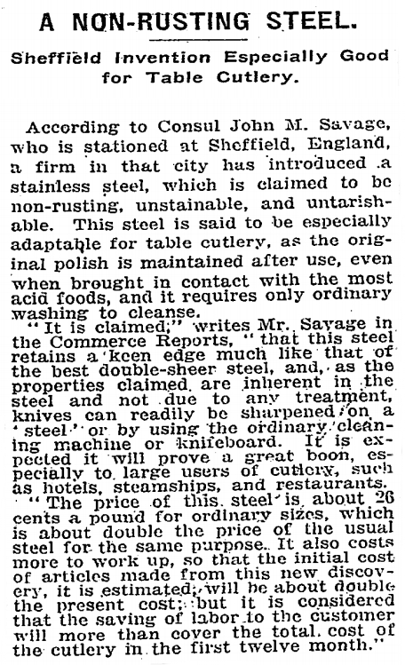 Source: NY Times from January 31, 1915, as retrieved from Source: NY Times from January 31, 1915, as retrieved from